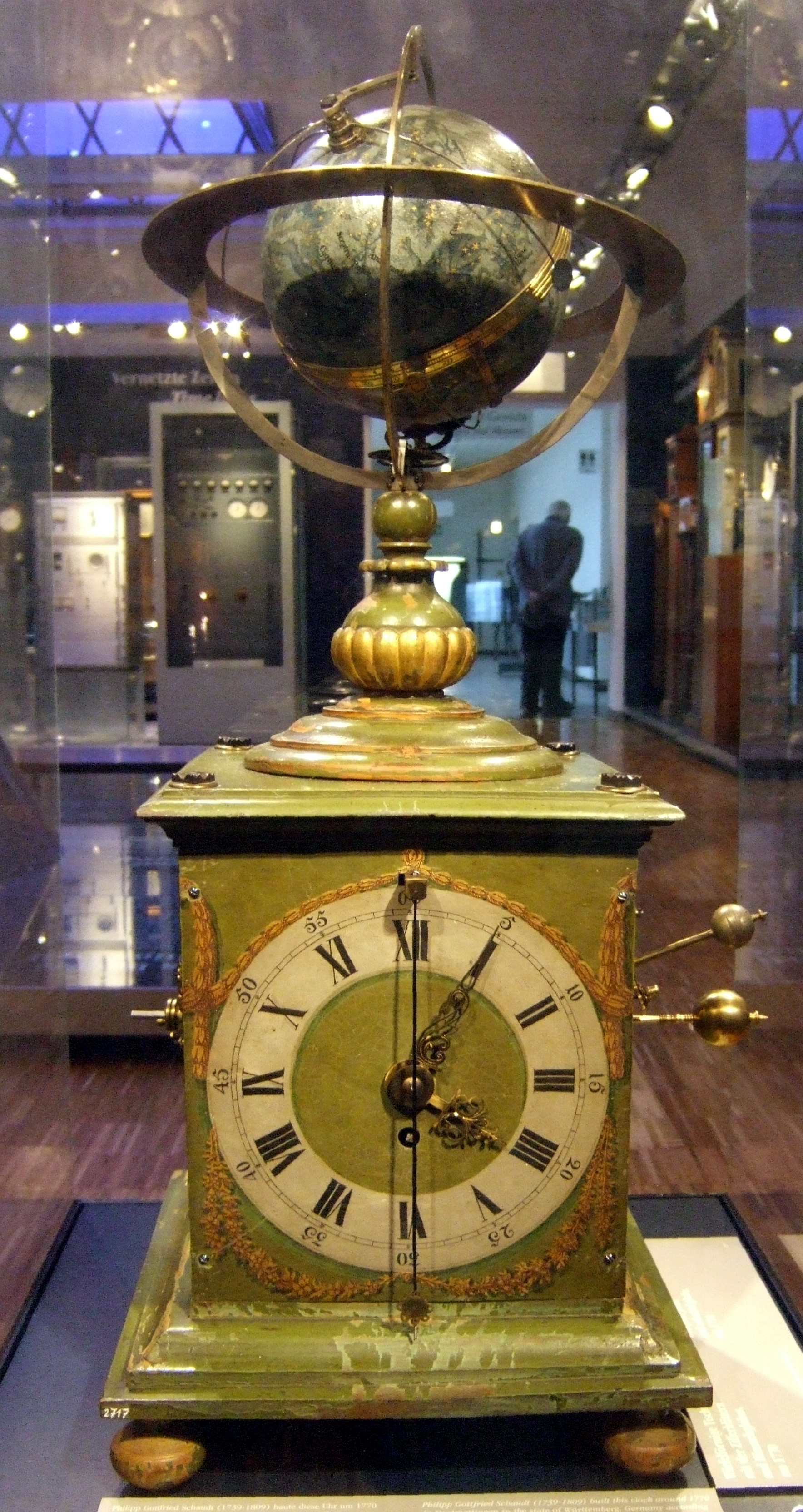 Philipp Gottfried Schaudt: "Munich Clock" (type: globe clock) (c. 1770 or later) (location: Deutsches Museum, Munich)